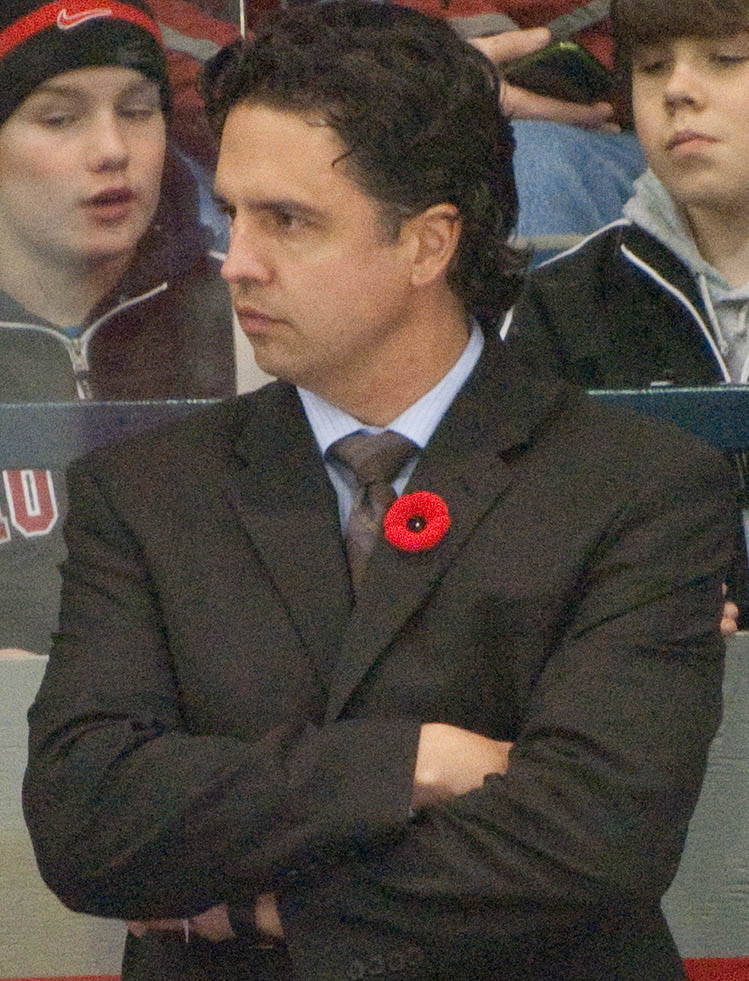 Travis Green during a Portland Winterhawks game.